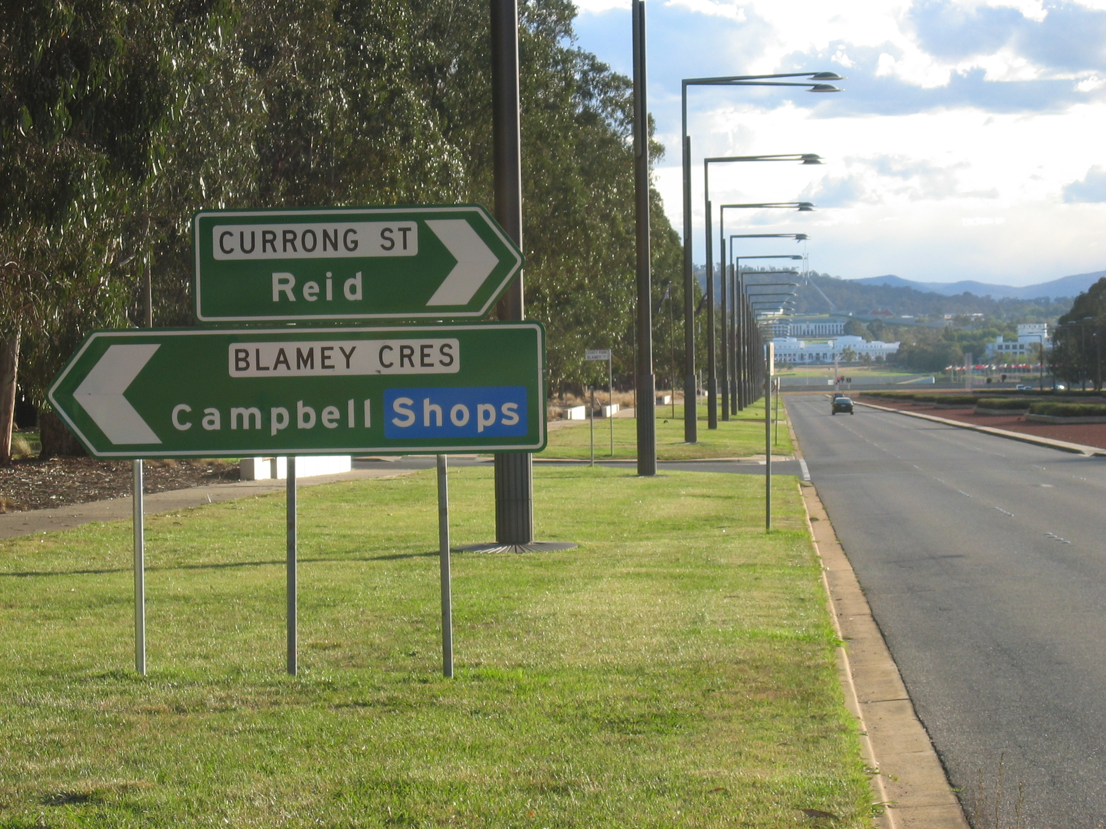 Street sign located on Anzac Ave, Canberra. Pointing to the suburbs of Reid and Campbell.